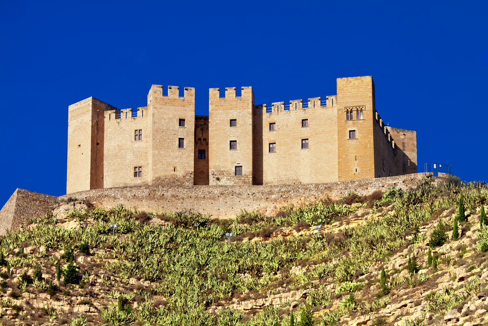 Mequinenza Castle